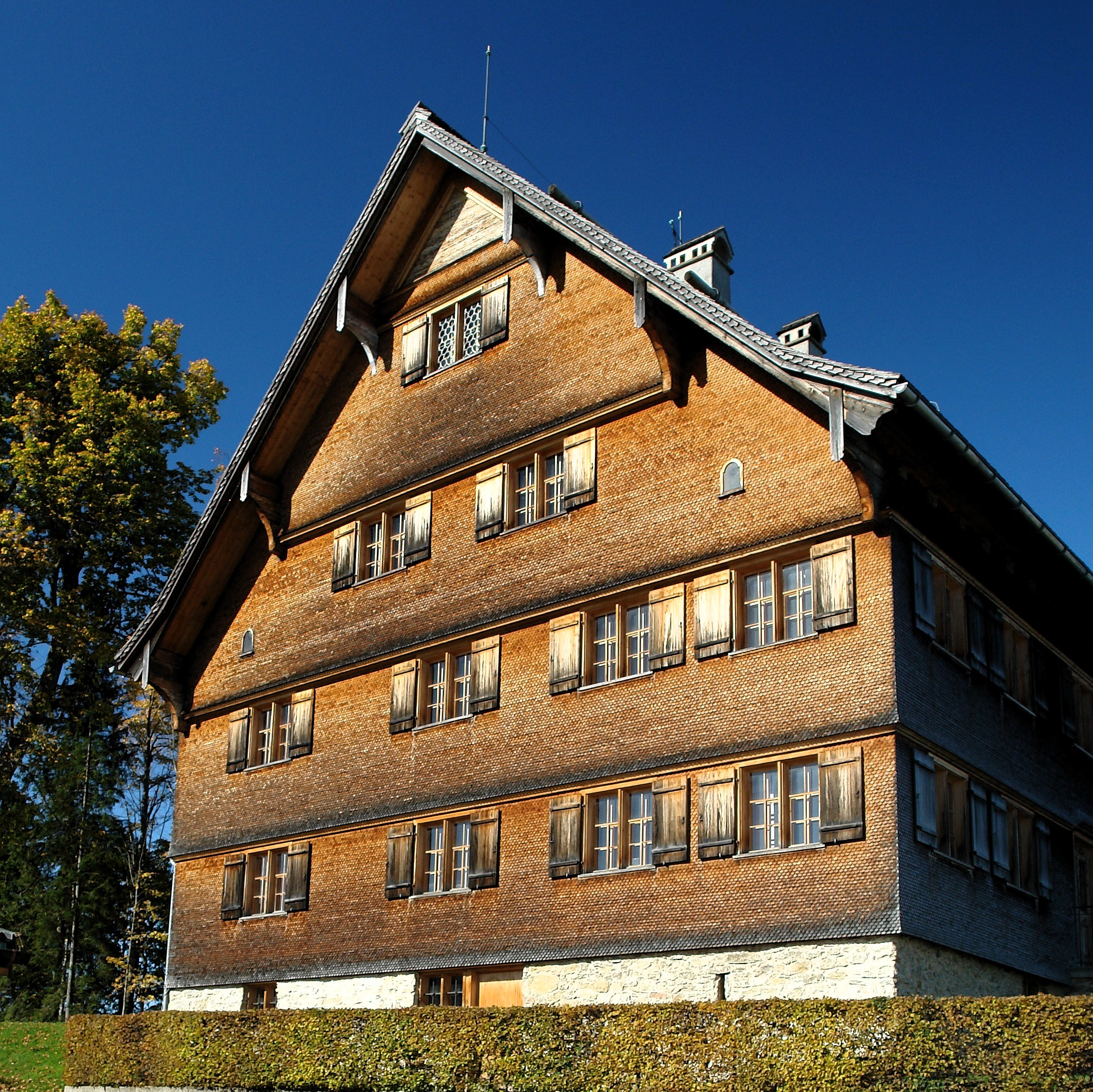 Old parish House in Sulzberg/Vorarlberg